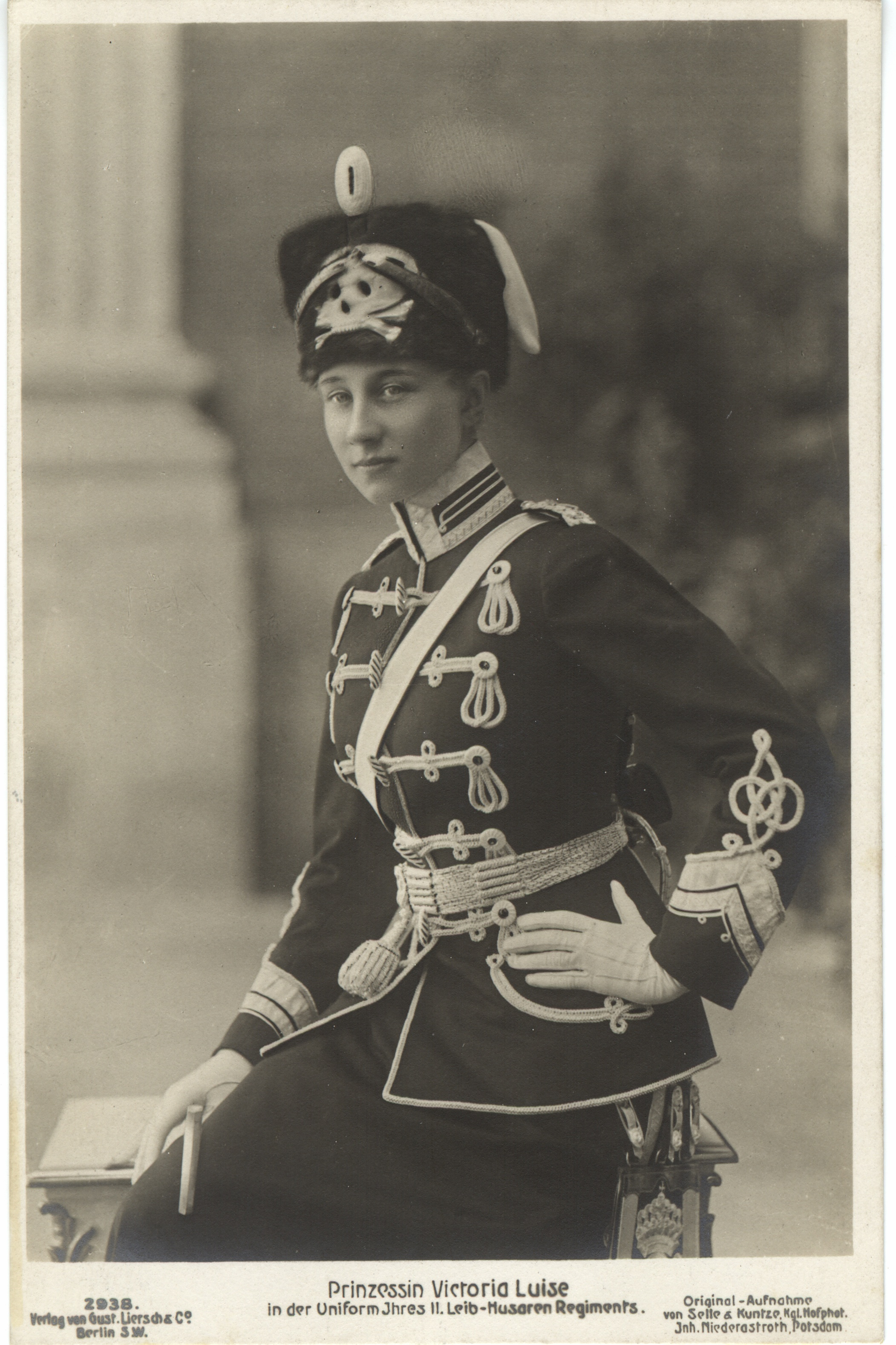 A postcard showing Princess Victoria Louise of Prussia in the uniform of the Life-Hussars Regiment Nr.2, "Empress Friedrich," including the traditional Totenkopf ("skull") mirliton. The photograph was taken on the occasion of the handover of command of the regiment to the princess.